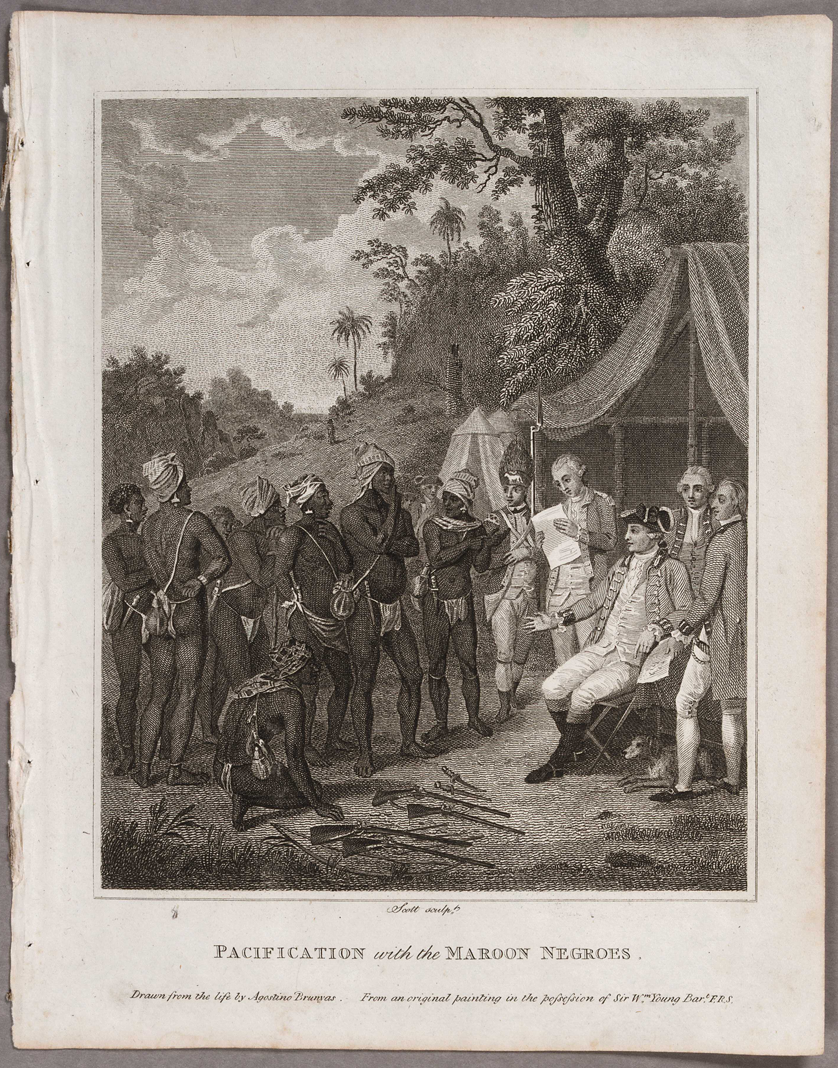 Pacification with the Maroon Negroes The title of this print is misleading. The original oil painting from which it is derived depicts the signing of the 1773 peace treaty between the British crown and the so-called Black Caribs of St Vincent. This group was made up of the last remaining Carib Indians and runaway slaves, who had resisted British moves to take over land in St Vincent from the 1760s. They drove back British forces, and by 1772 the British authorities were so concerned that they dispatched William Young, lieutenant-governor of Dominica (and father of Sir William Young) to ‘[reduce] them to His Majesty’s Sovereignty’. Under the terms of the treaty, land was reserved for the Caribs in return for their allegiance. Their presence and their enmity towards the British, however, continued to scare the planters who continually campaigned to have this ‘internal enemy’ removed. Following a major insurrection, in alliance with the French in 1795, the Caribs were brutally removed from St Vincent. Etching entitled 'Pacification with the Maroon Negroes/ Drawn from the life by Agostino Brunais. From an original painting in the possession of Sir William Young Bart F.R.S.'. Taken from 'The History, Civil and Commercial, of the British Colonies in the West Indies' by the Jamaican planter and historian Bryan Edwards (1801). Pacification with the Maroon Negroes